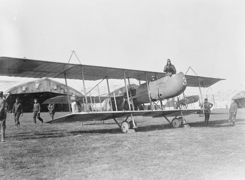 French Aircraft of the First World War A Farman F.40 French pusher bombing biplane.